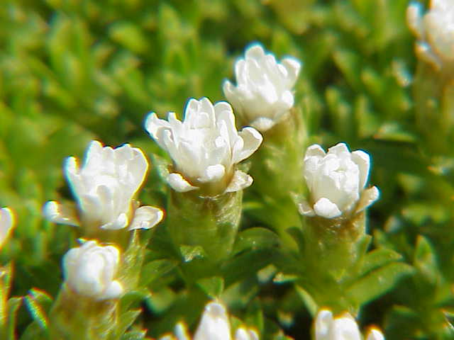 Species: Raoulia glabra Family: Asteraceae Image No. 5